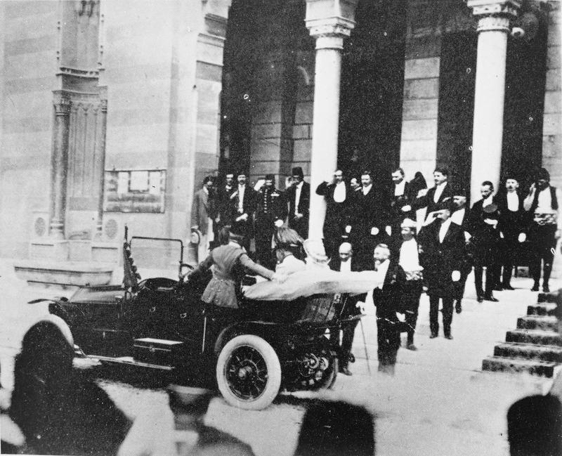 Archduke Franz Ferdinand in Sarajevo, June 1914 Heir to the Austro-Hungarian throne Archduke Franz Ferdinand and his wife, Sophie, get into a motor car to depart from the City Hall, Sarajevo, shortly before they were assassinated by the Serbian nationalist Gavrilo Princip on 28 June 1914.